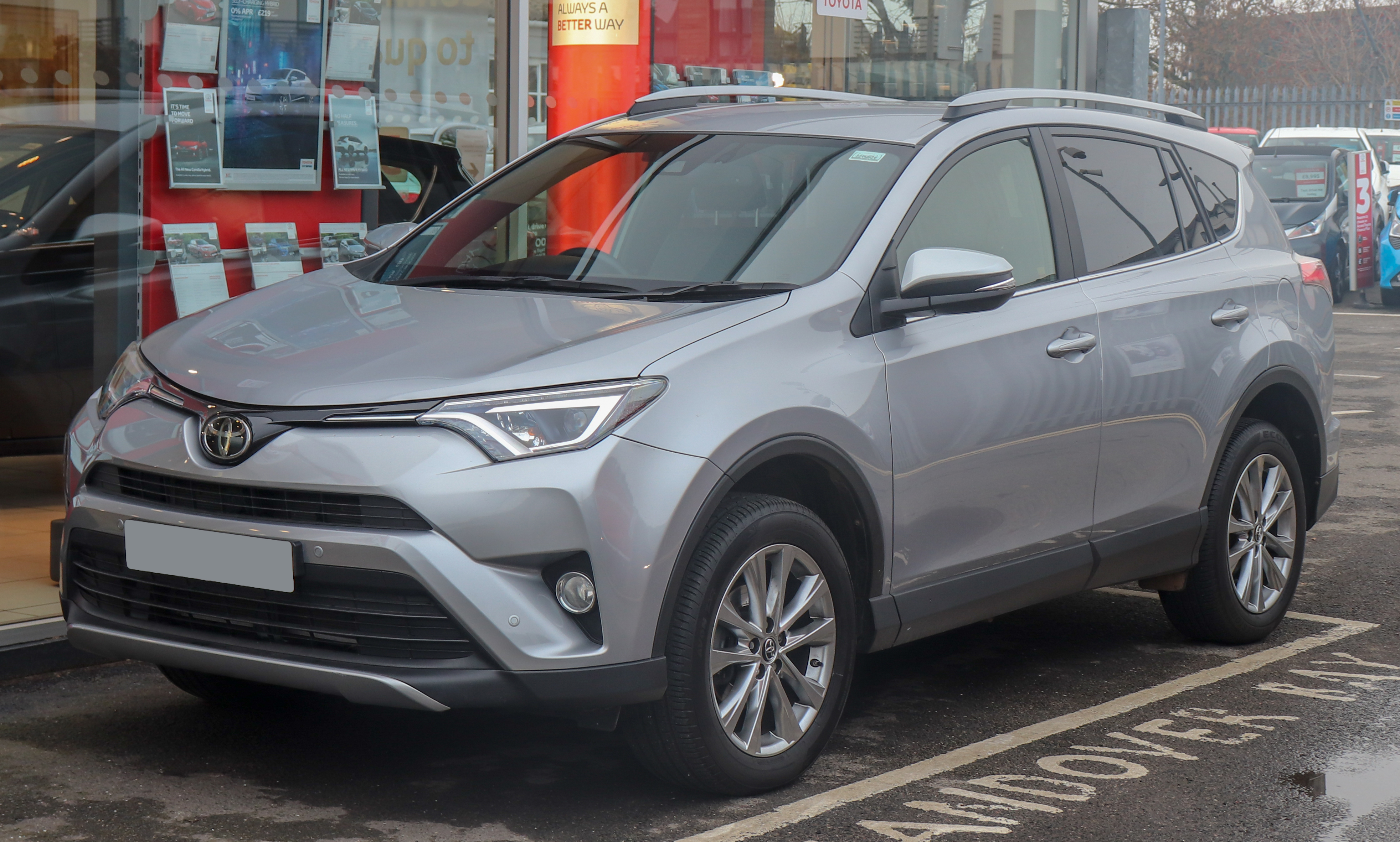 2017 Toyota RAV4 Excel TSS VVT-I Automatic 2.0 Front Taken in Stratford-upon-Avon